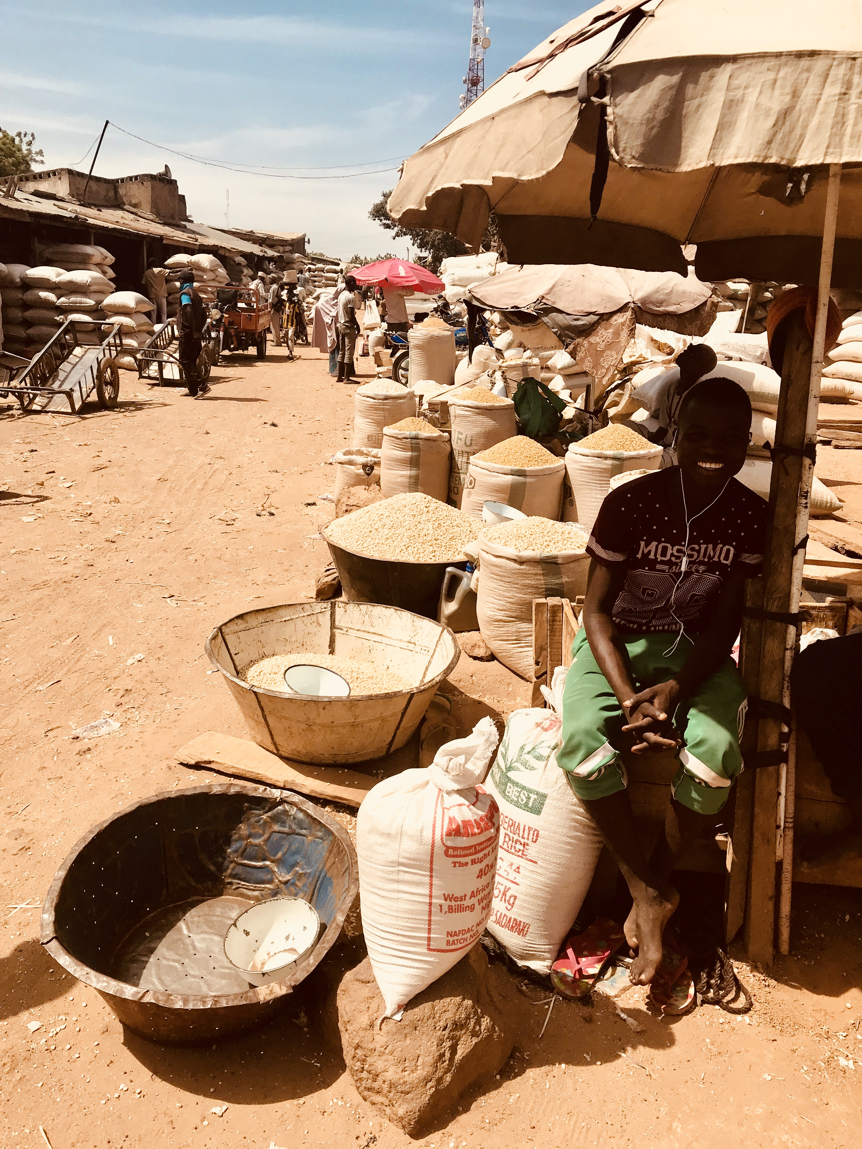 One of the largest grains markets in West Africa. You see the resilience and joy on the people’s faces as they carry out their daily tasks. This is an image of "African people at work" from Nigeria